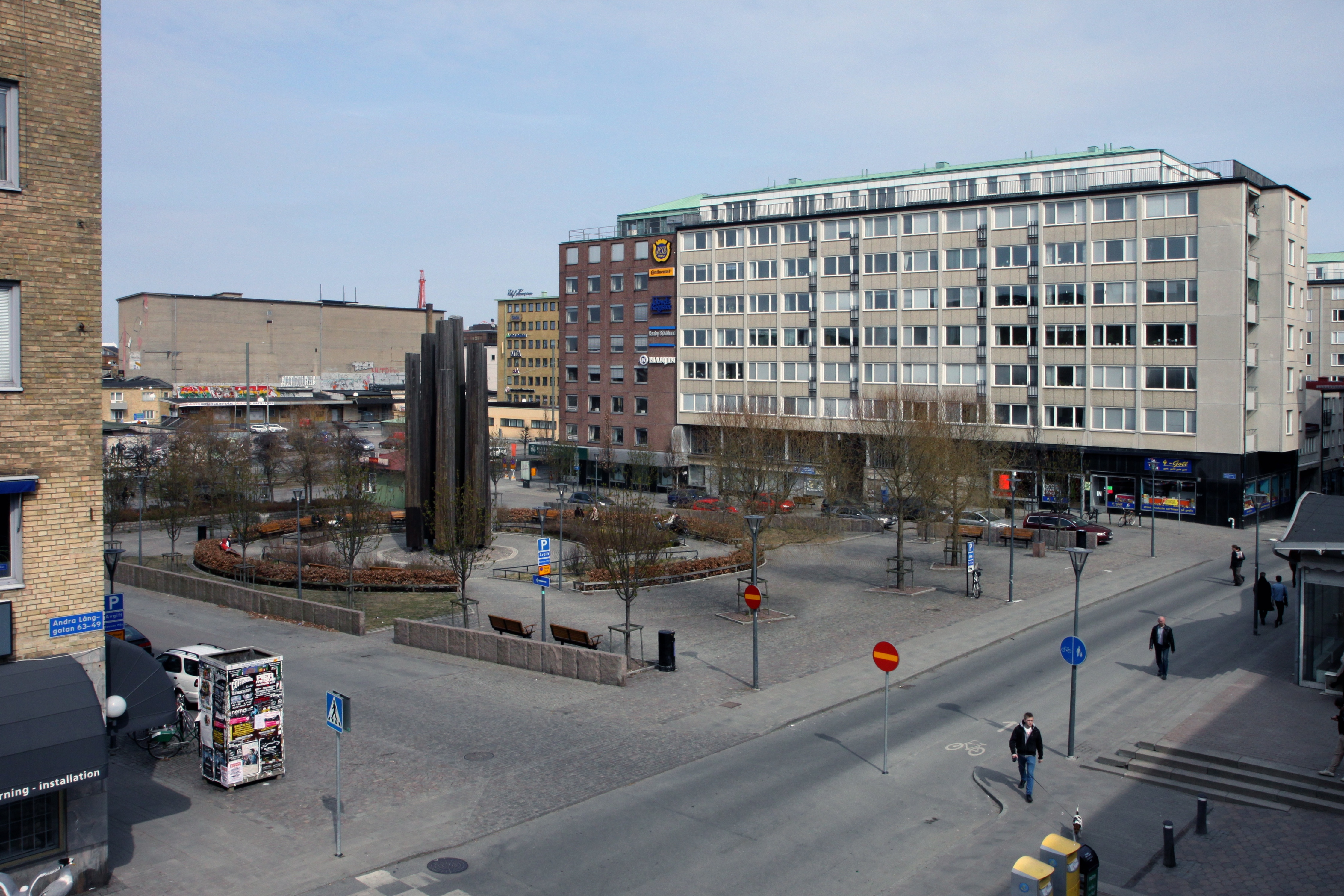 Masthuggstorget in Gothenburg, Sweden